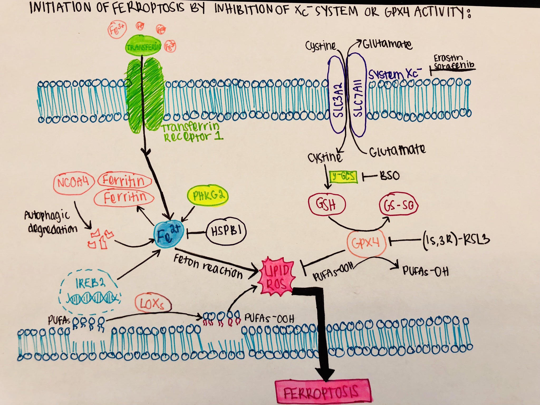 Mechanism in which ferroptosis is induced by the Xc- System and Gpx4 activity, in relation to being used as a potential treatment for cancer.